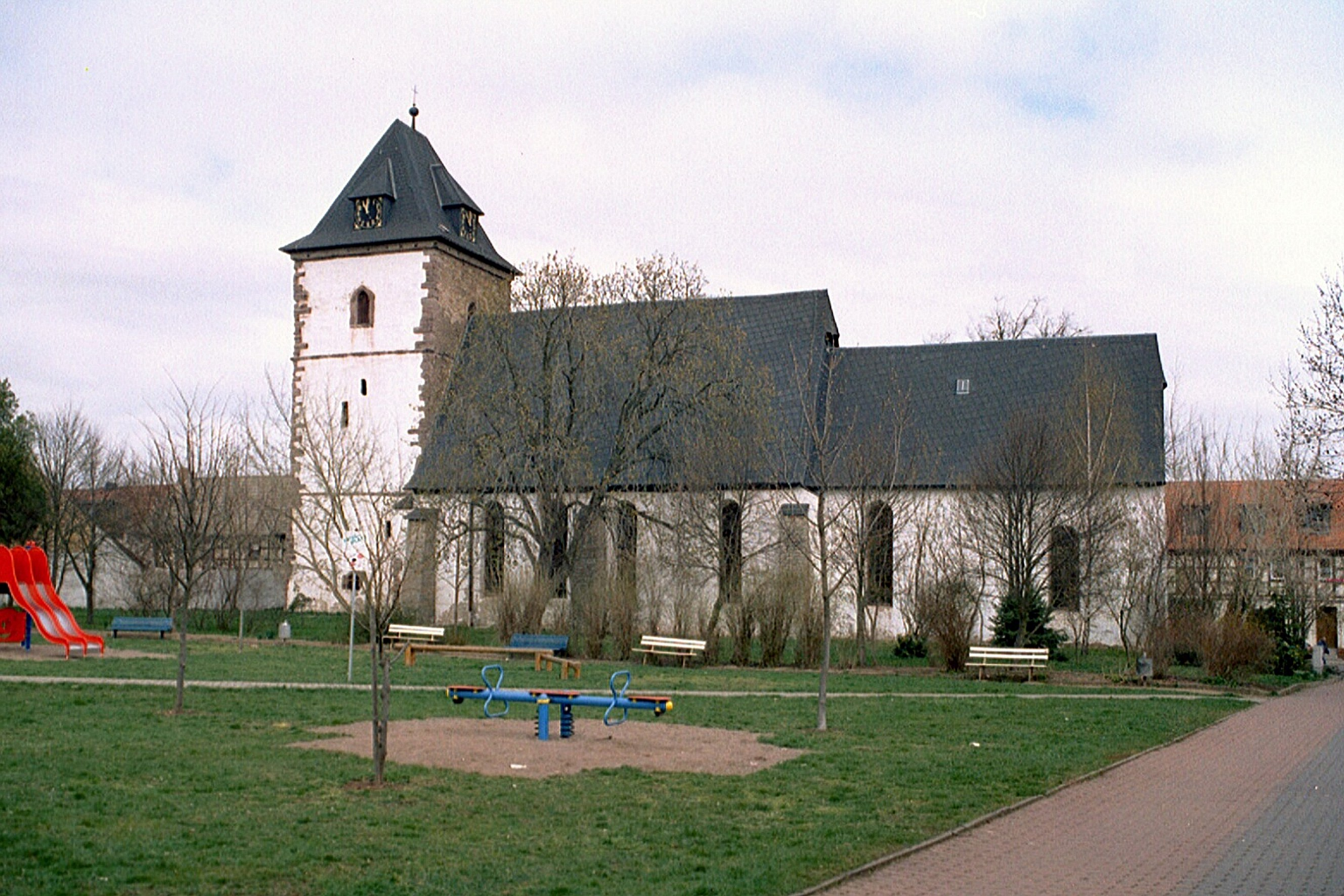 Brücken-Hackpfüffel, the village church in Brücken